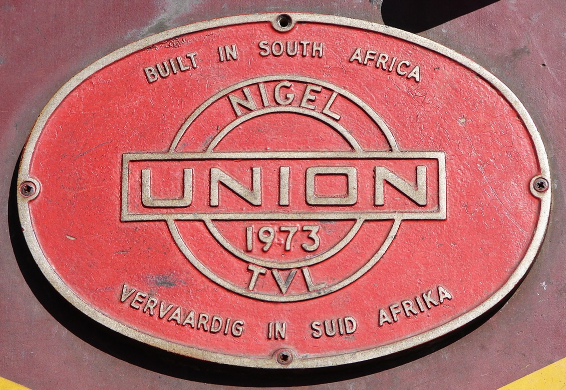 SAR Class 6E1 Series 4 E1468 builder's plateLocation: Beaufort West, Western Cape